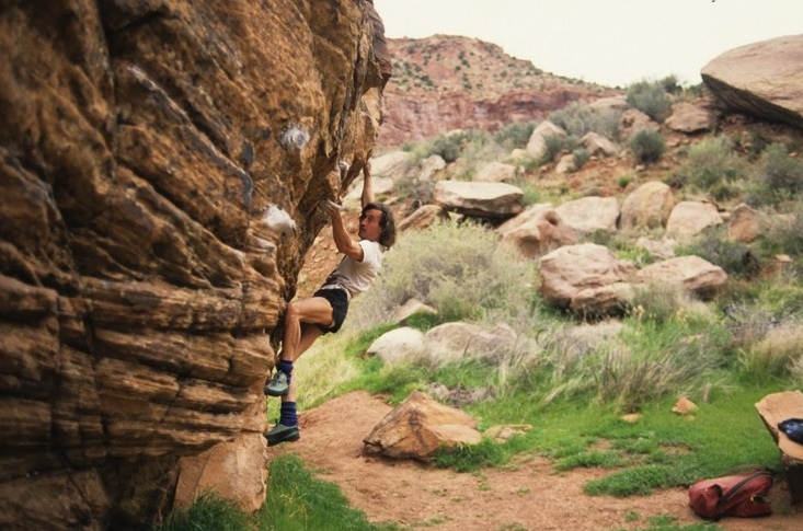 Photo of Derek Hersey in Zion, circa 1990's.jpg